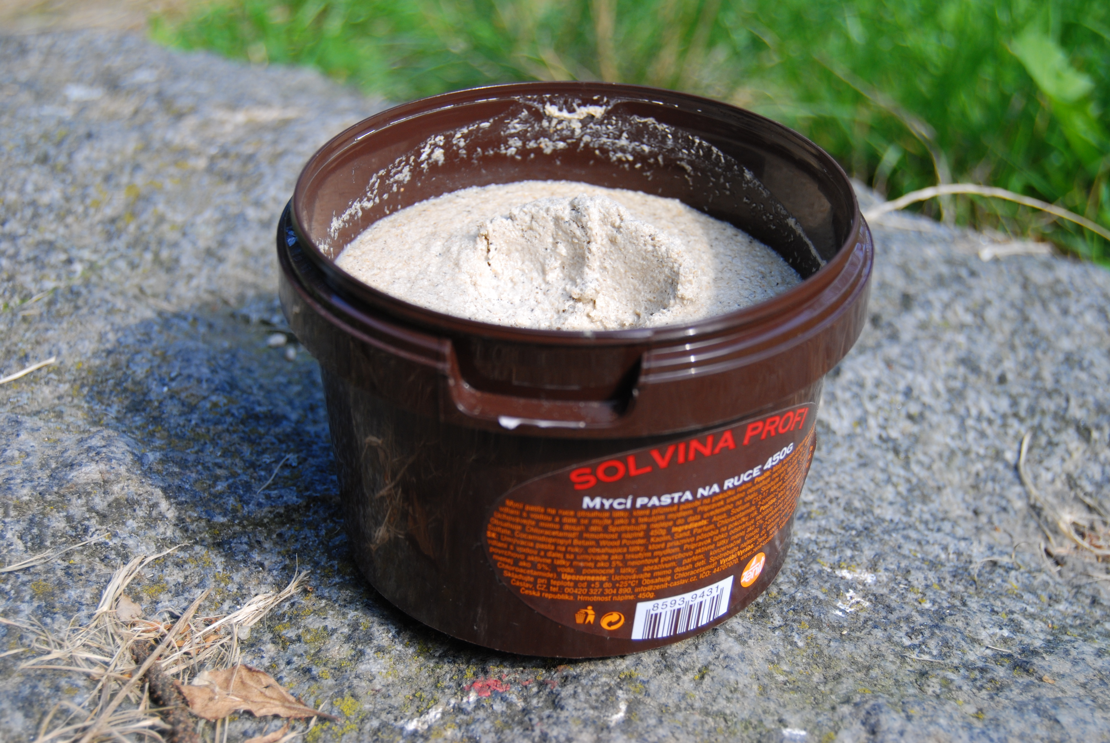 Solvina - cleaning lotion.